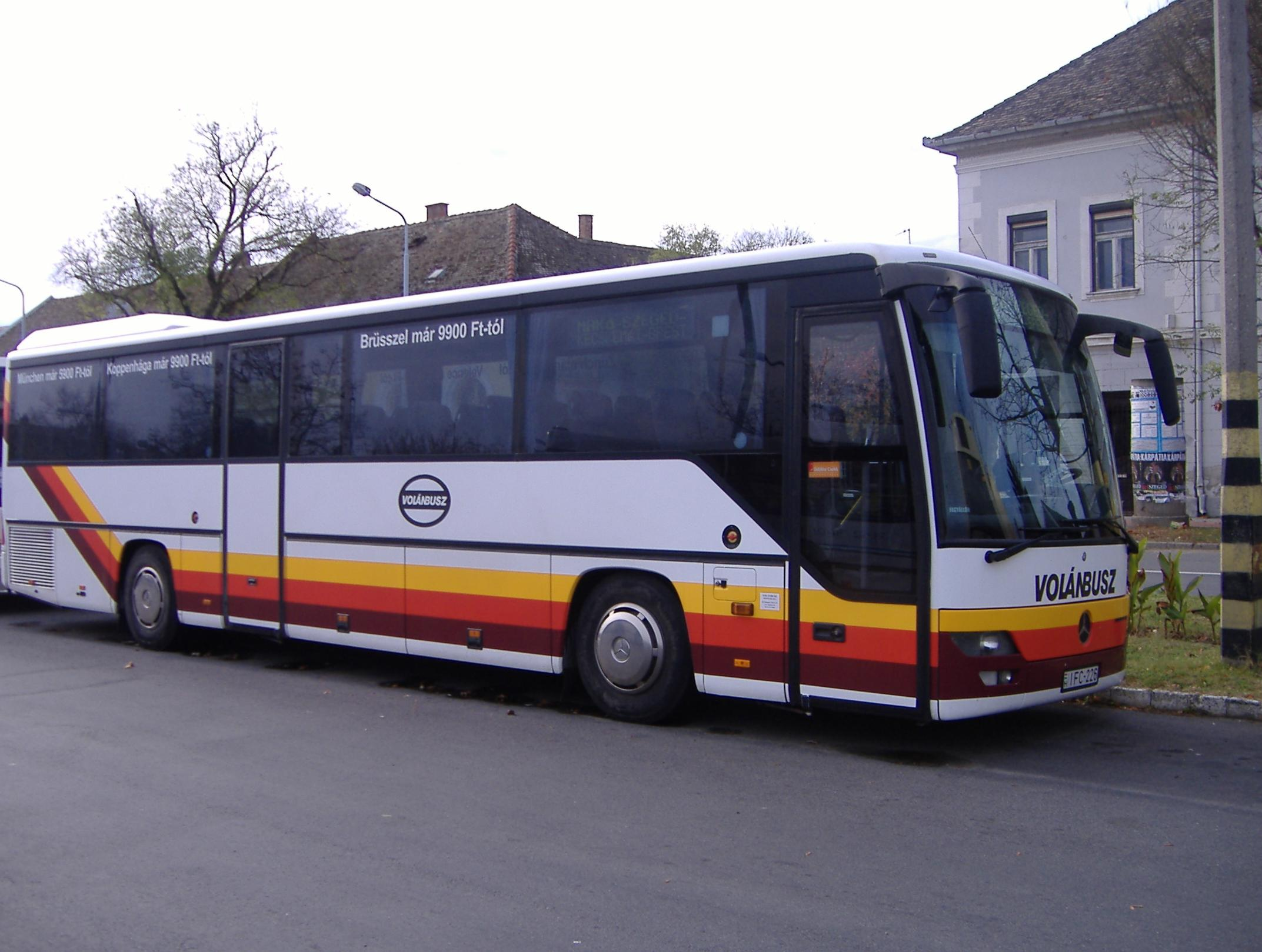 Coach/bus in Makó, Hungary.